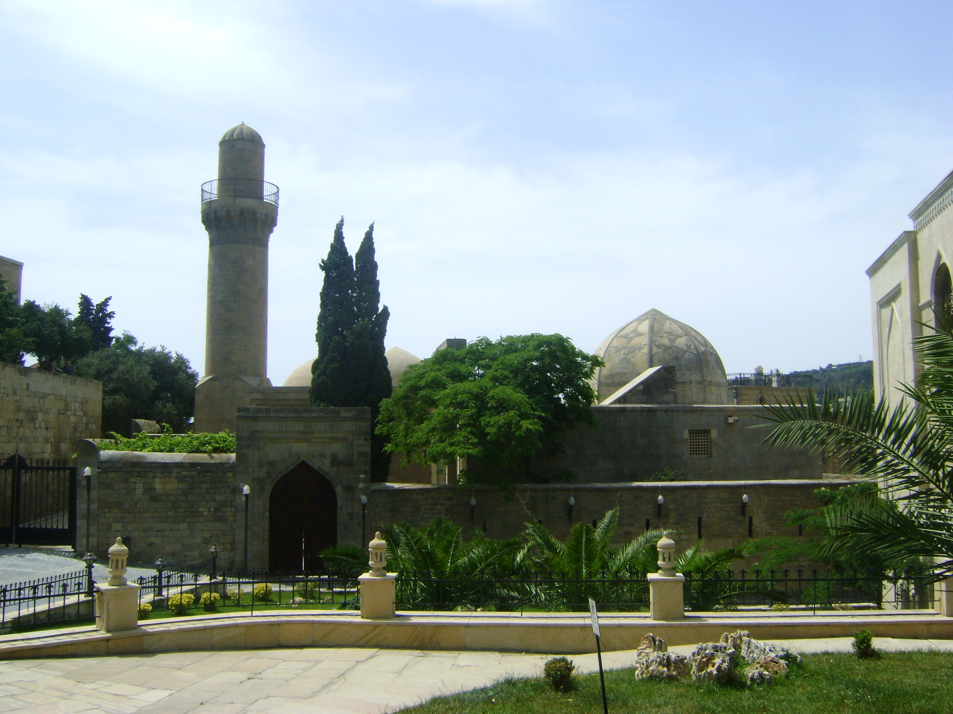 shirvanshakh_palace_old_city(baku)_azerbaijan_8-18centuries - general view